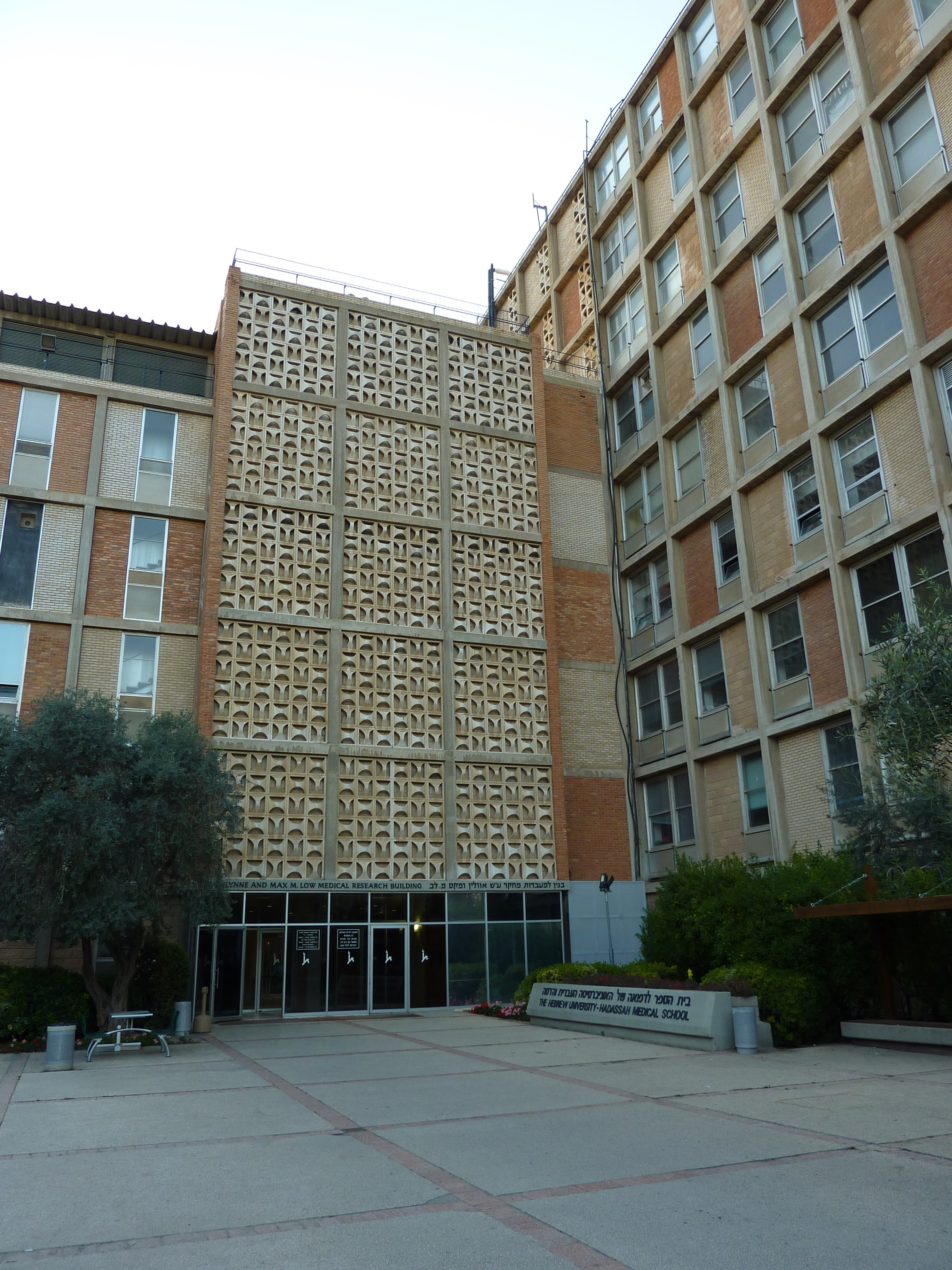 The Hebrew University Medical School at Hadassah Ein Karem Hospital